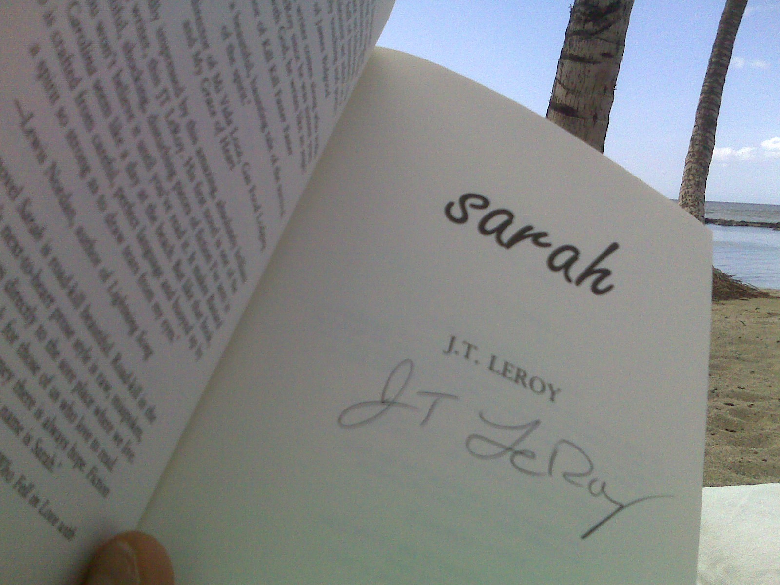 Signed copy of Sarah by JT LeRoy. LeRoy is a pseudonym for Laura Albert. this was percieved as a type of hoax. this signature is definitely a "hoax".